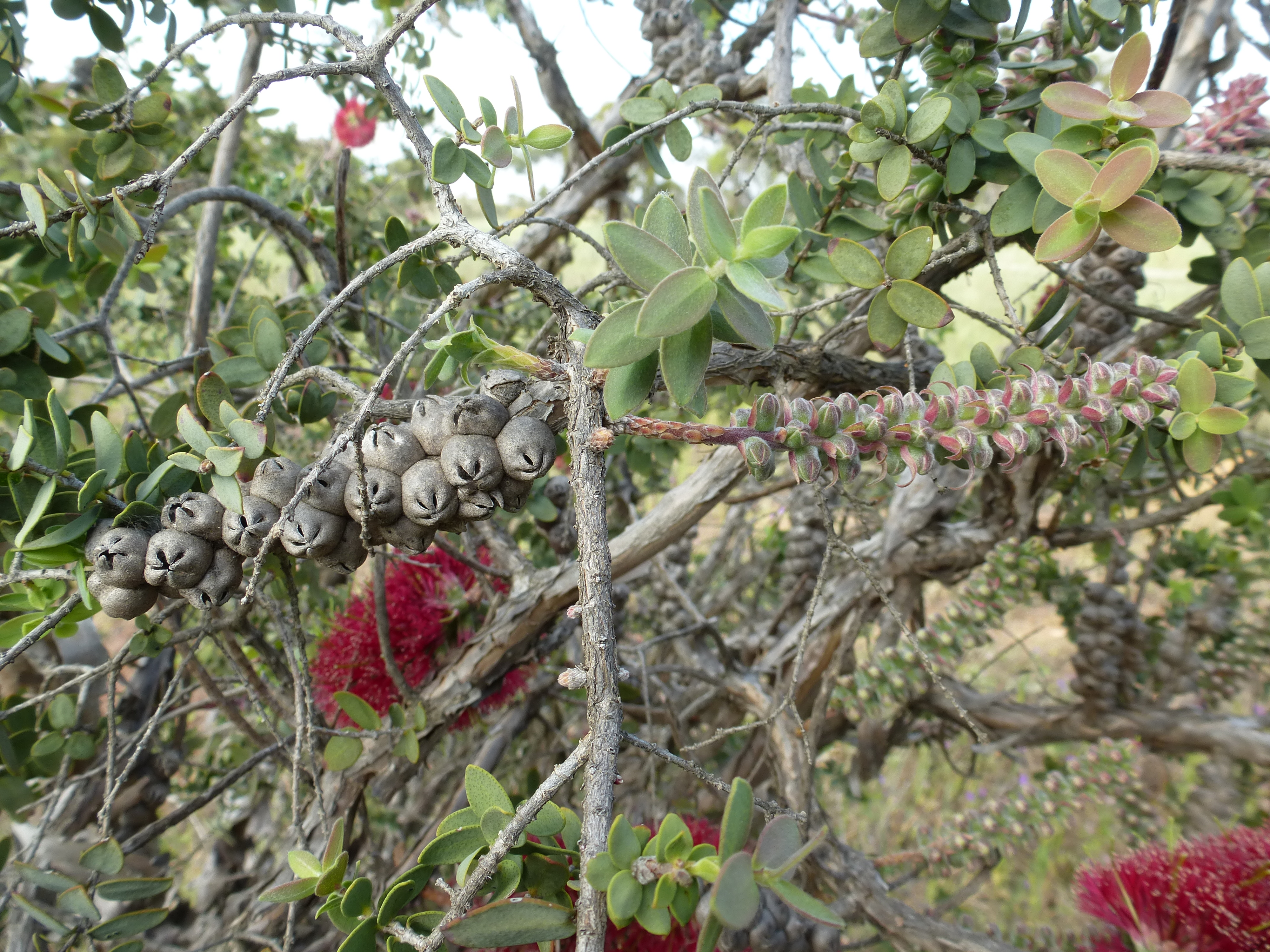 Melaleuca elliptica growing 80 km W of Esperance